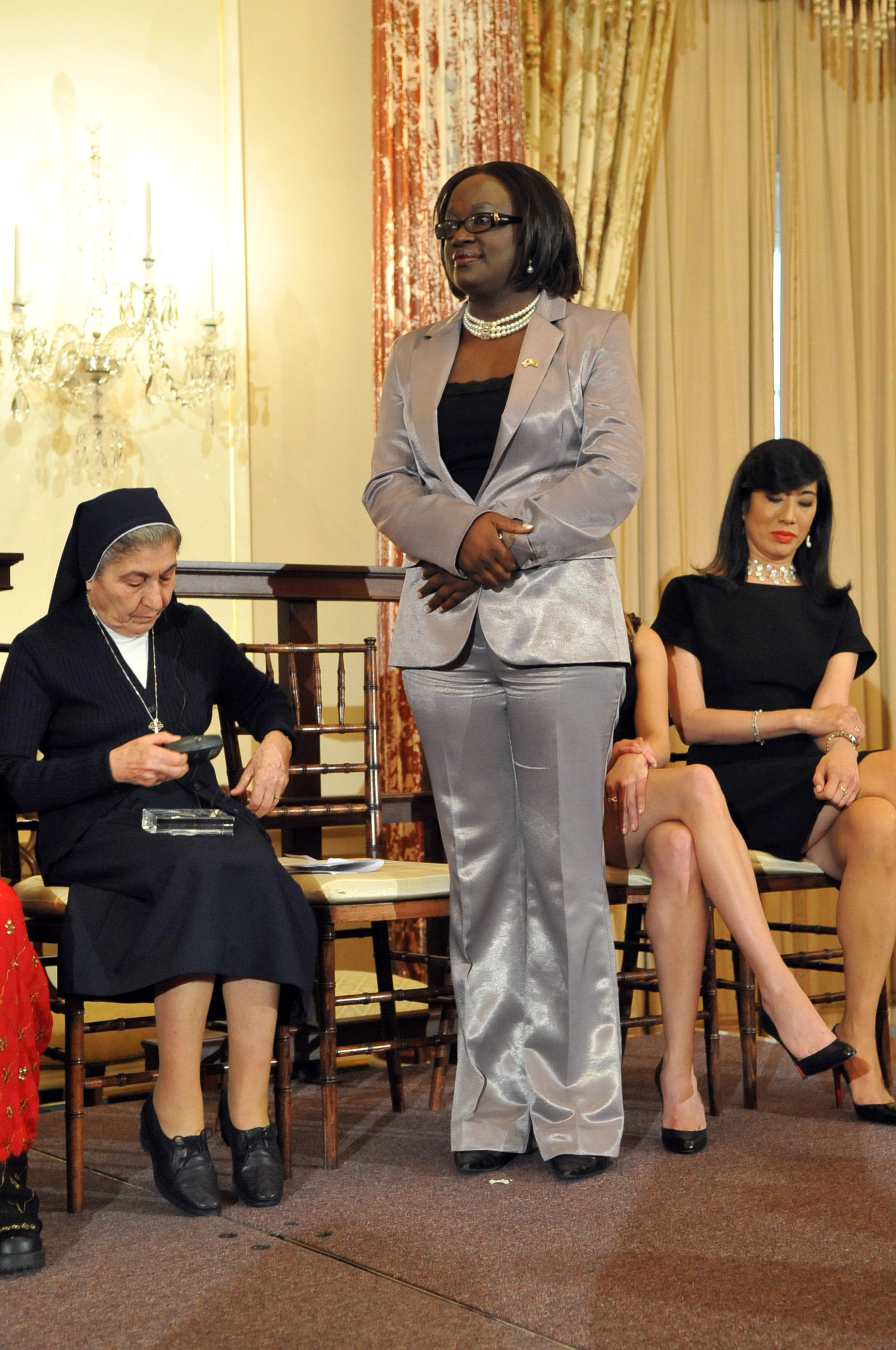 Honoree Jestina Mukoko of Zimbabwe stands as she is recognized at the 2010 International Women of Courage Awards at the U.S. Department of State, Washington, D.C. March 10, 2010. [State Department Photo/Public Domain]